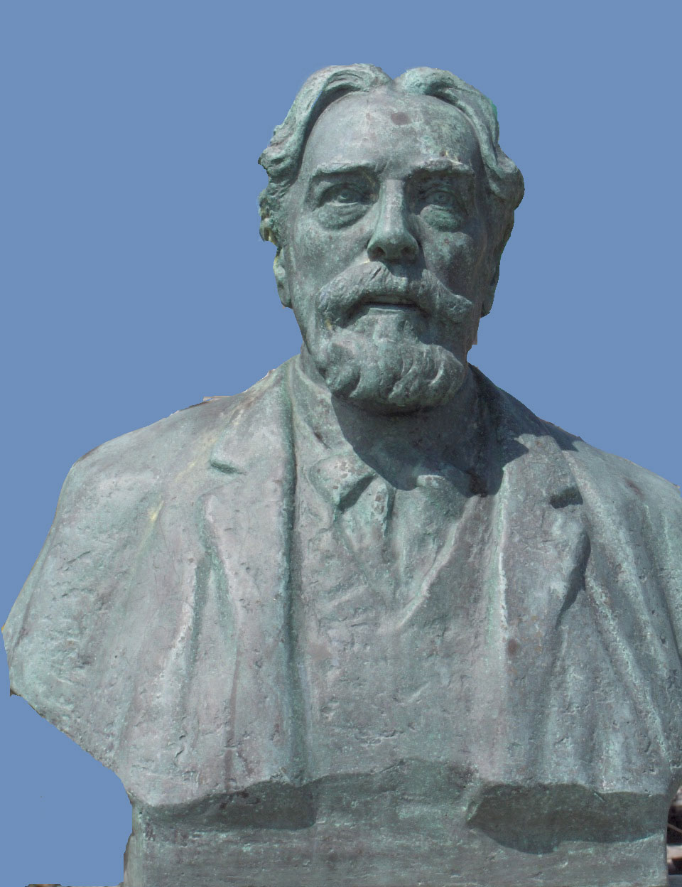 James Ensor (1860-1949), famous Belgian painter. Bust by Edmond De Valériola (1877-1956) (1930) ; Oostende, Belgium